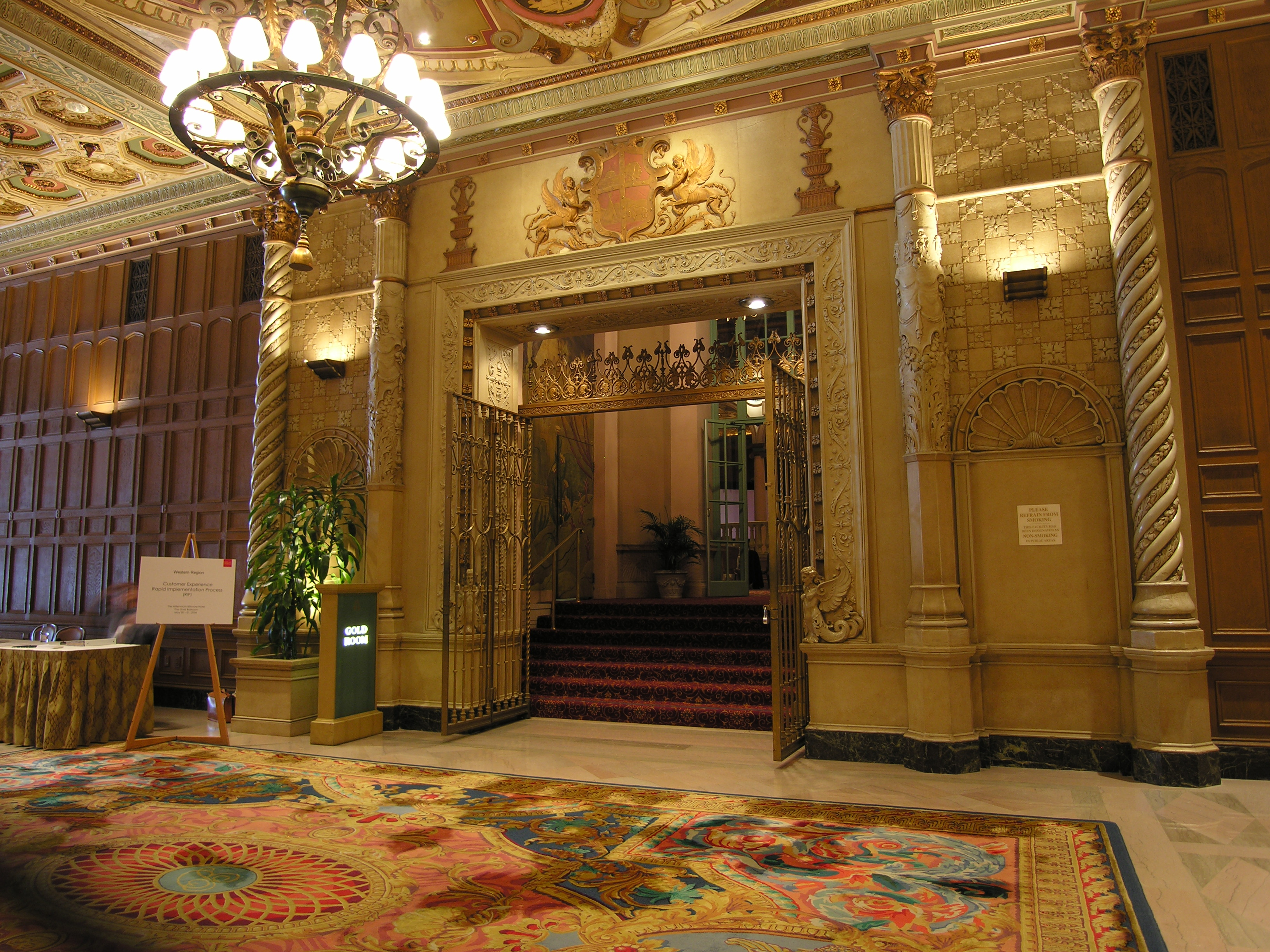 The Crystal Ballroom, Millennium Biltmore Hotel, Los Angeles.